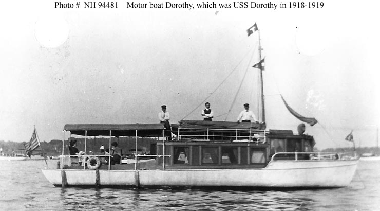 The private motorboat Dorothy sometime prior to her United States Navy service as the patrol evessel .